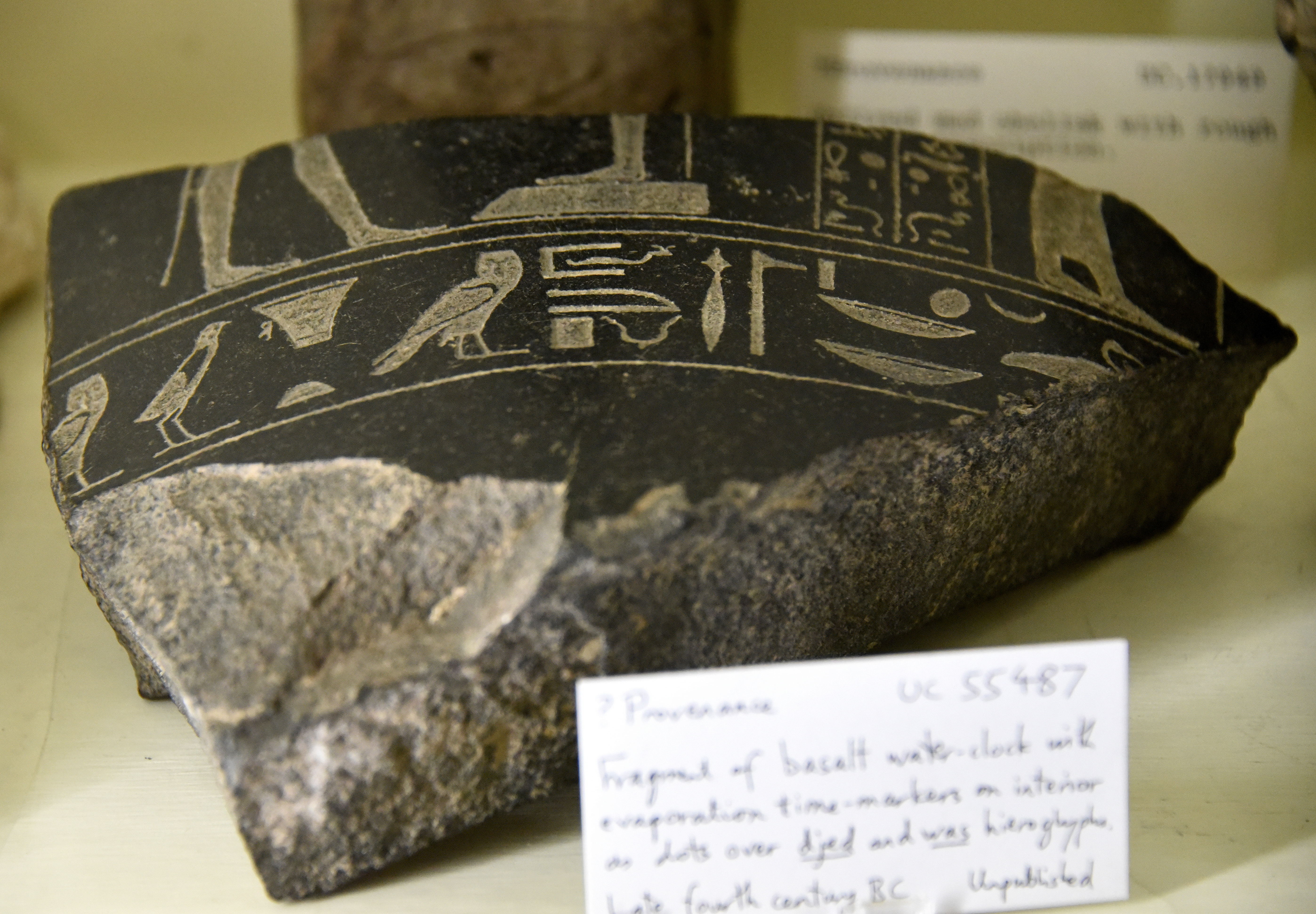 Fragment of a basalt water-clock with evaporation time markers on interior as dots on djed and was hieroglyphs. Late period, 30th Dynasty. From Egypt. The Petrie Museum of Egyptian Archaeology, London. With thanks to the Petrie Museum of Egyptian Archaeology, UCL.